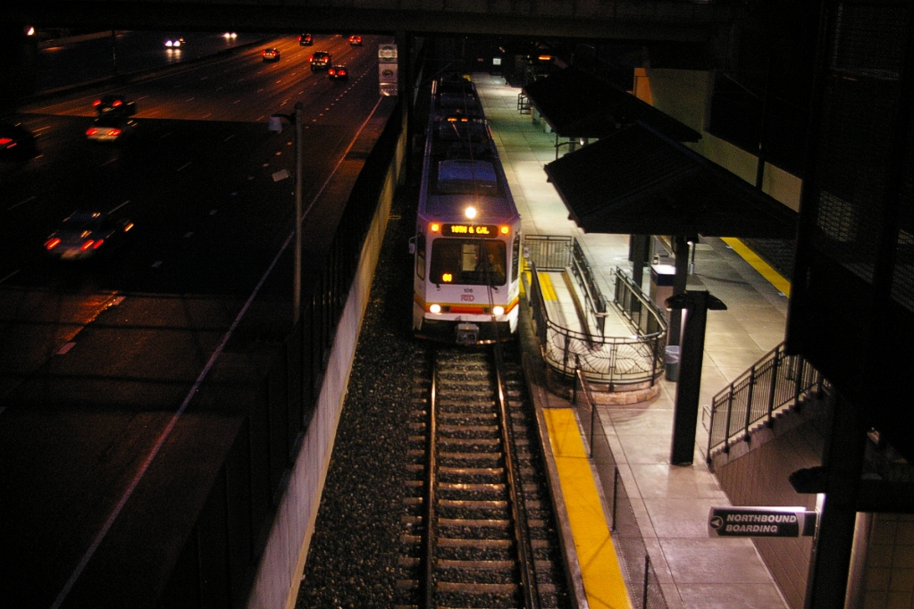 Northbound F-Line LRT stops at Arapahoe at Village Center station